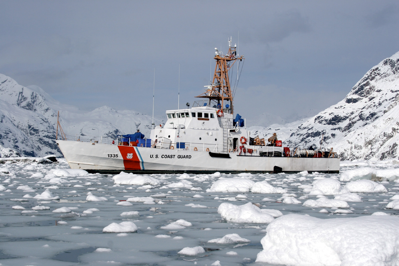 CGC Anacapa sails through icey waters in Glacier Bay, Alaska.